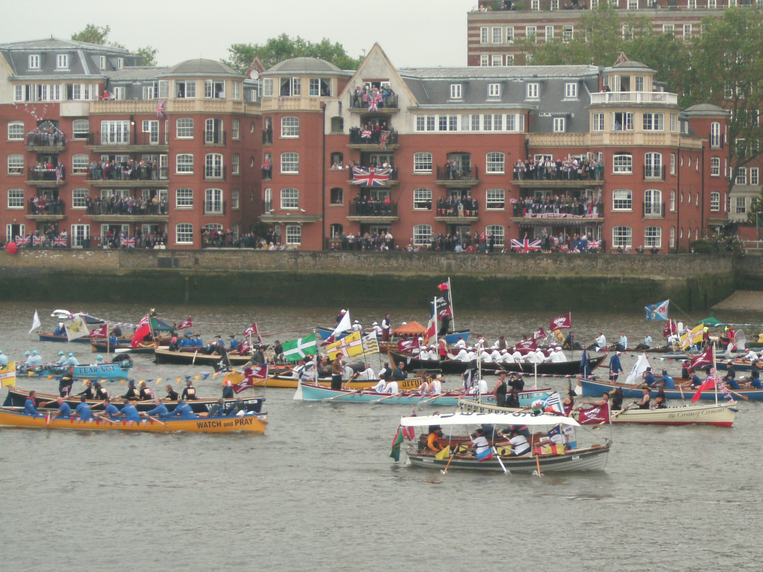 Man powered boats, the first wave of boats in the Thames Diamond Jubilee Pageant in honour of Queen Elizabeth II.